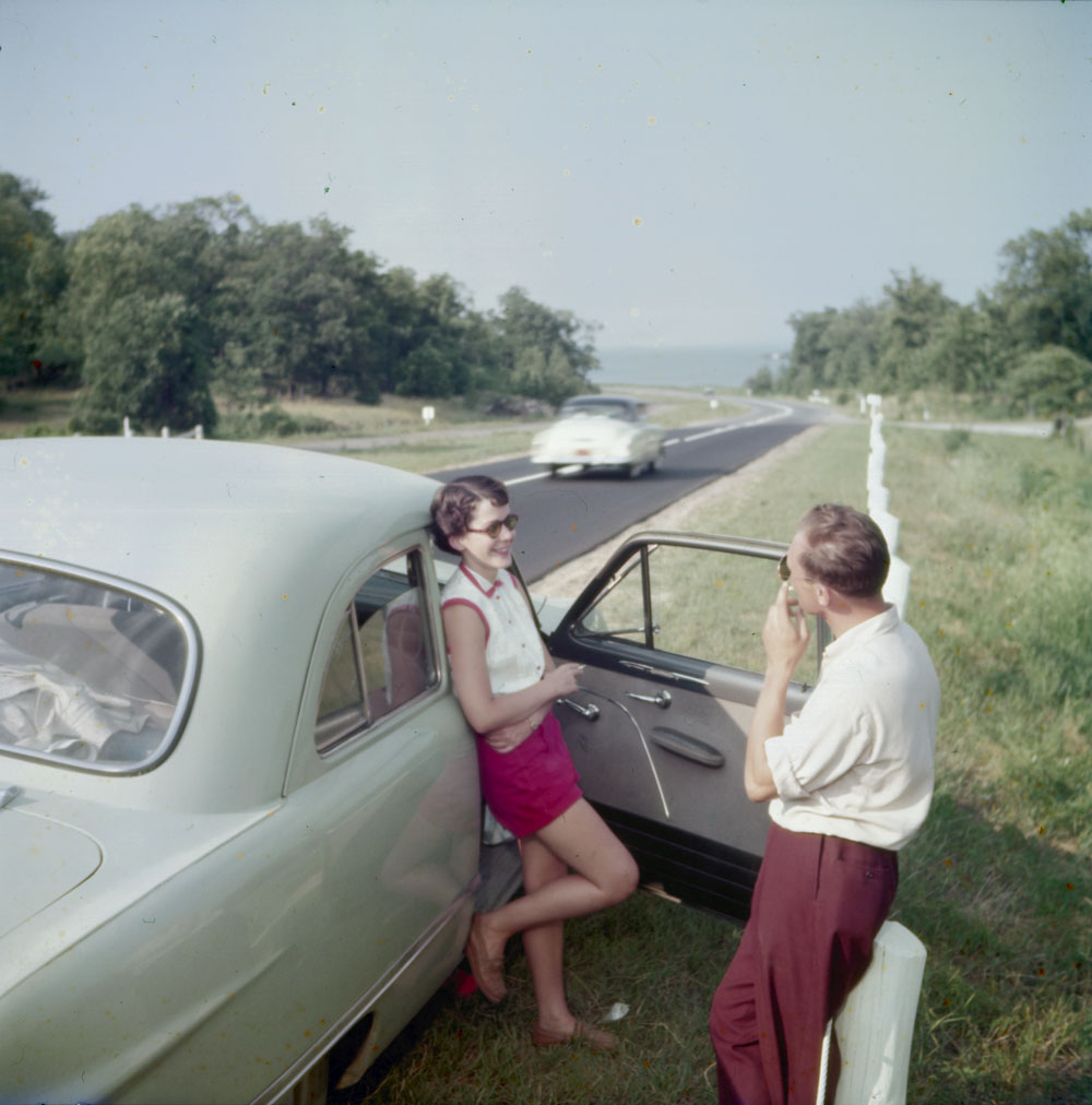 One man and one woman take a time out traveling on Highway 2 near Brockville, Ontario, Canada - July 1952